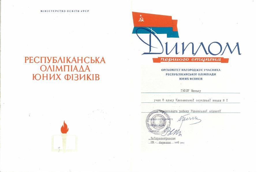 Diploma of 1 degree of Republican competition of young physicists in Dnipropetrovsk, 1976, Nicholas Gazda, Klevan SSch№1